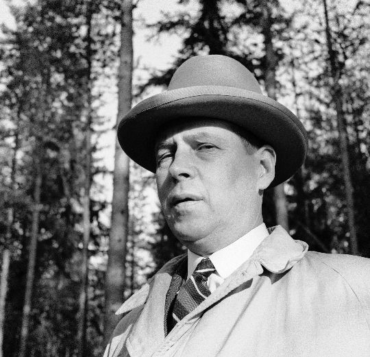 Photograph of the Finnish businessman Heikki H. Herlin (1901–1989).